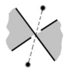 A crossing of two threads can be encoded as a negative edge of the medial graph.